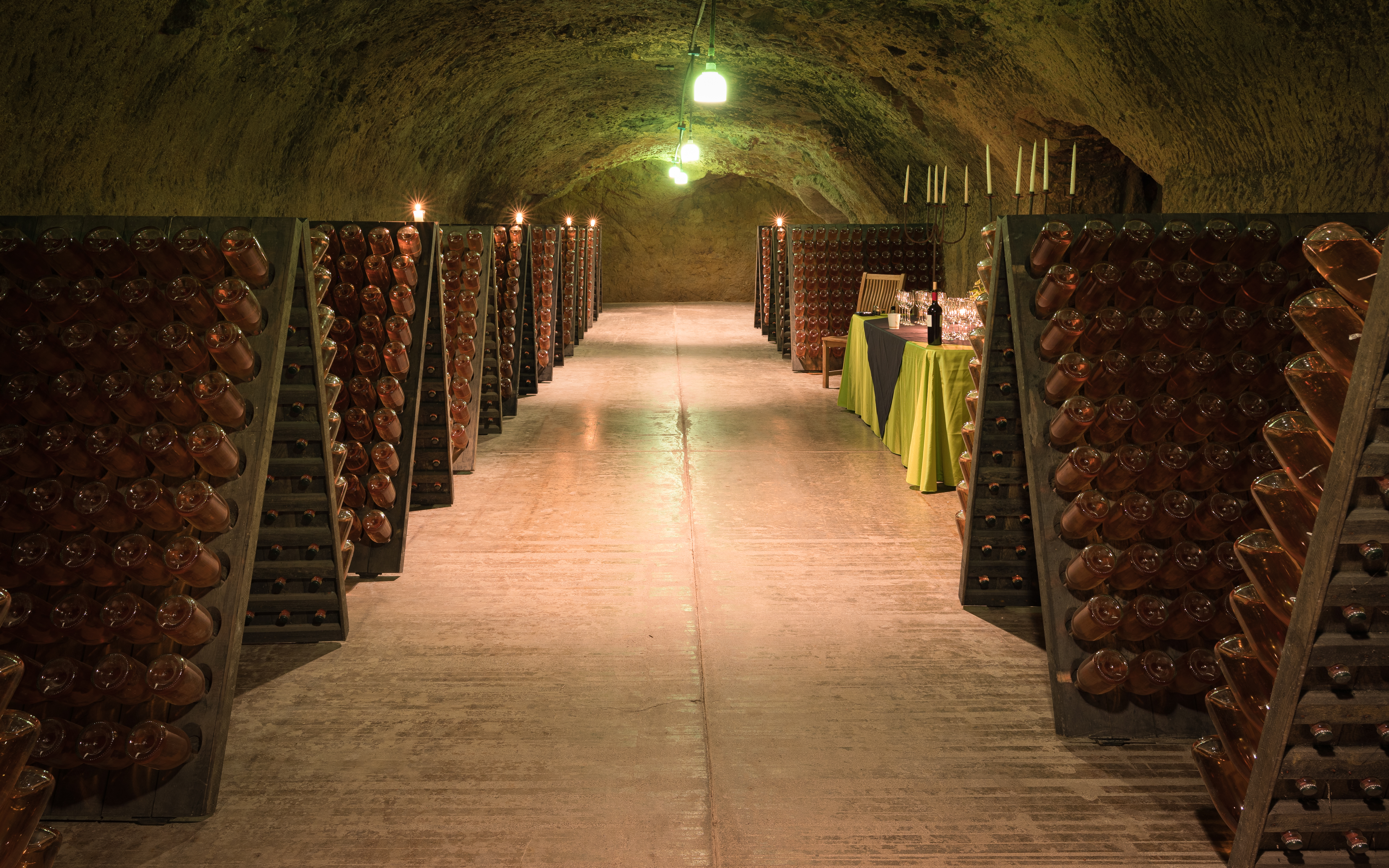 Tasting room in the wine cellar of Schramsberg Vineyards, Napa Valley, California